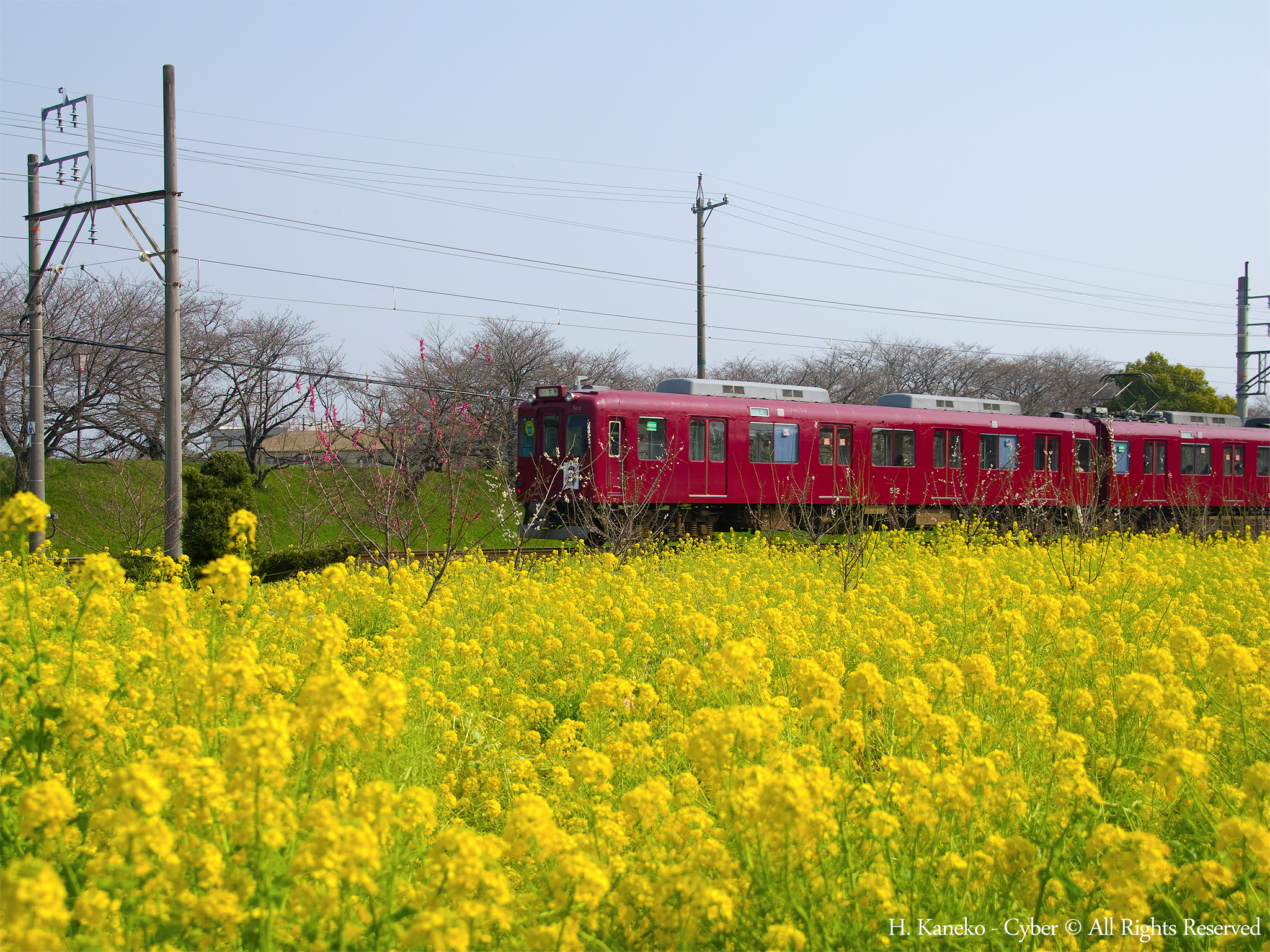 菜の花と養老鉄道(Rapeseed blossoms with Yoro Railway) 22 Mar, 2015